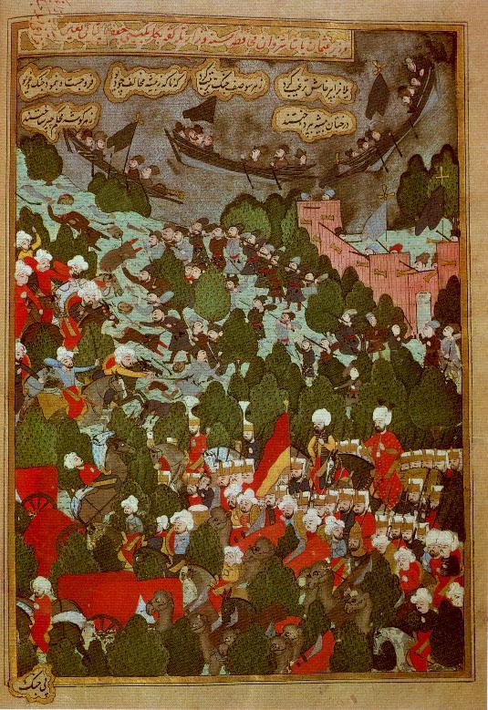 Osman Pasa and Cafer(Ja'far) Pasa, Ottoman governor of Shirvan, in battle against the Cossacks. folio 130b